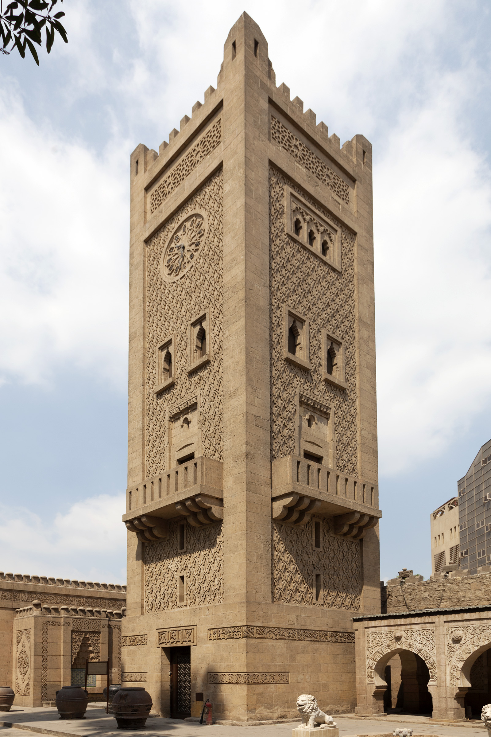 Clock tower inside the Manial palace, Roda island, Cairo, Egypt